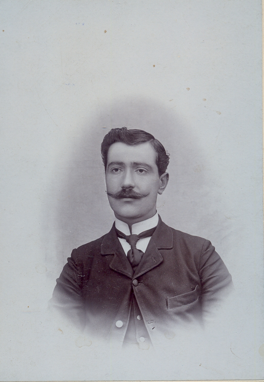 Bulgarian revolutionaire, member of the Internal Macedonian-Adrianopolitan Revolutionary Organization Petar Kitanov (1875-1912).